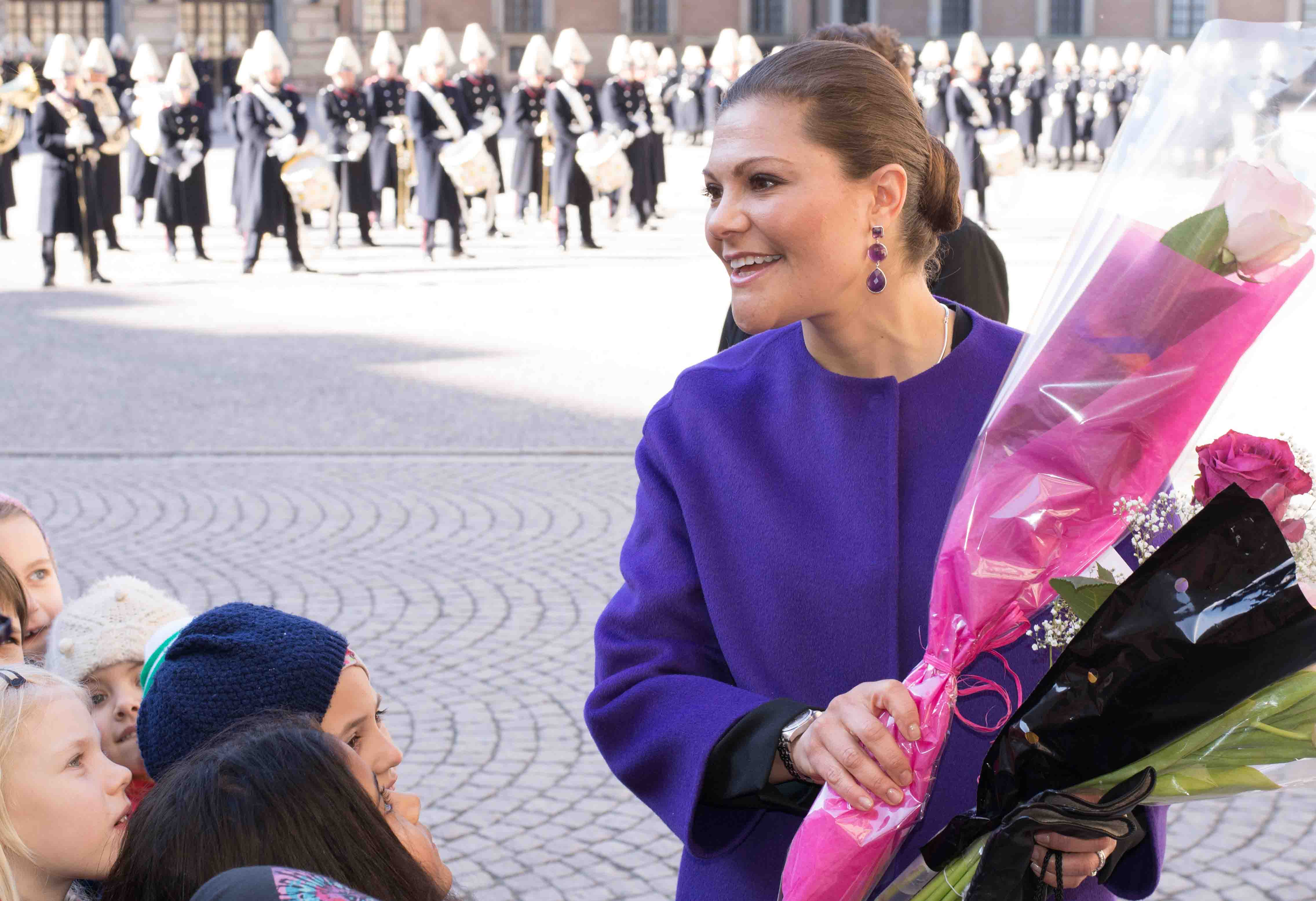 Crown Princess Victoria is congratulated on her name day in the inner courtyard at the Stockholm Palace on March 12, 2015.